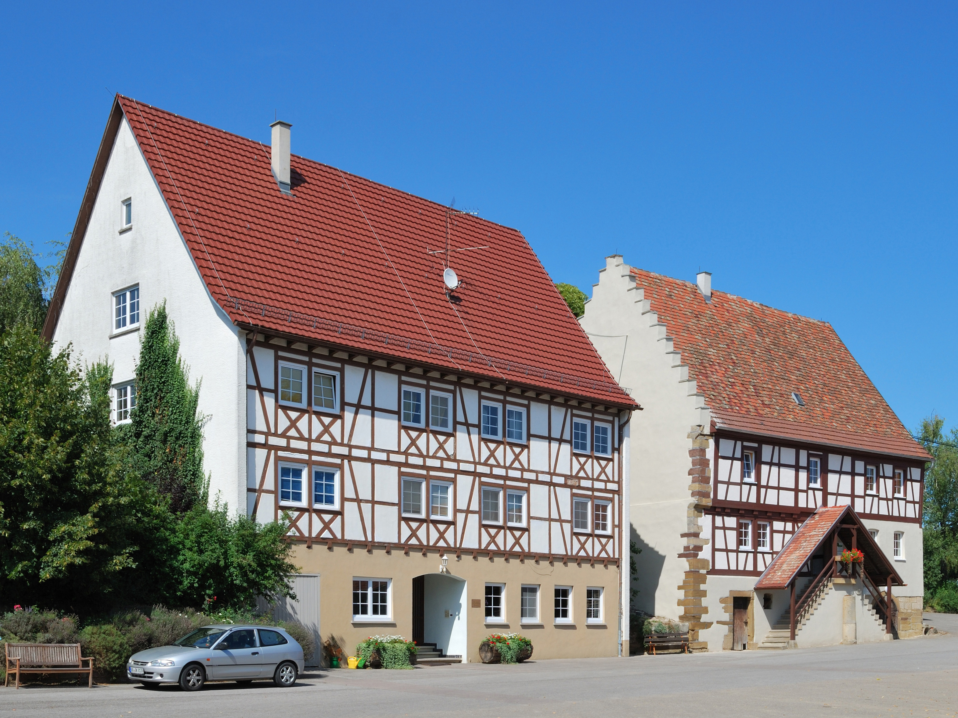 Timber framing in Hofgut Mauer in Münchingen (Baden-Württemberg, Germany).